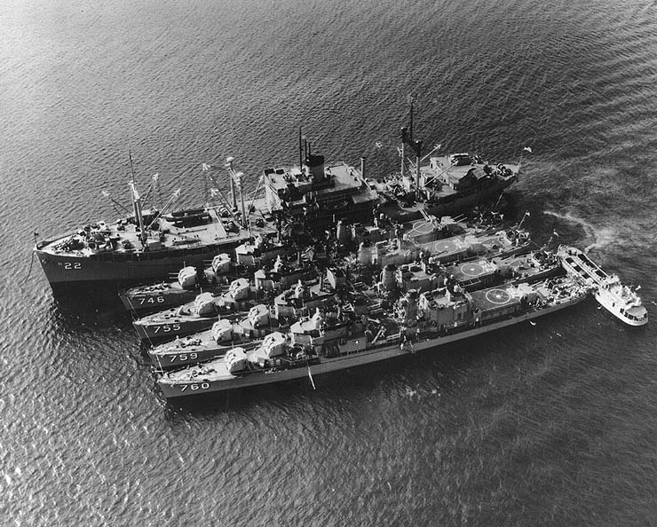 Photo #: NH 82517